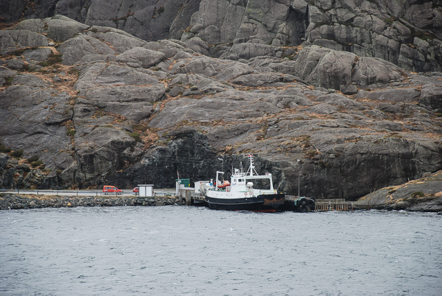 MF Nårasund